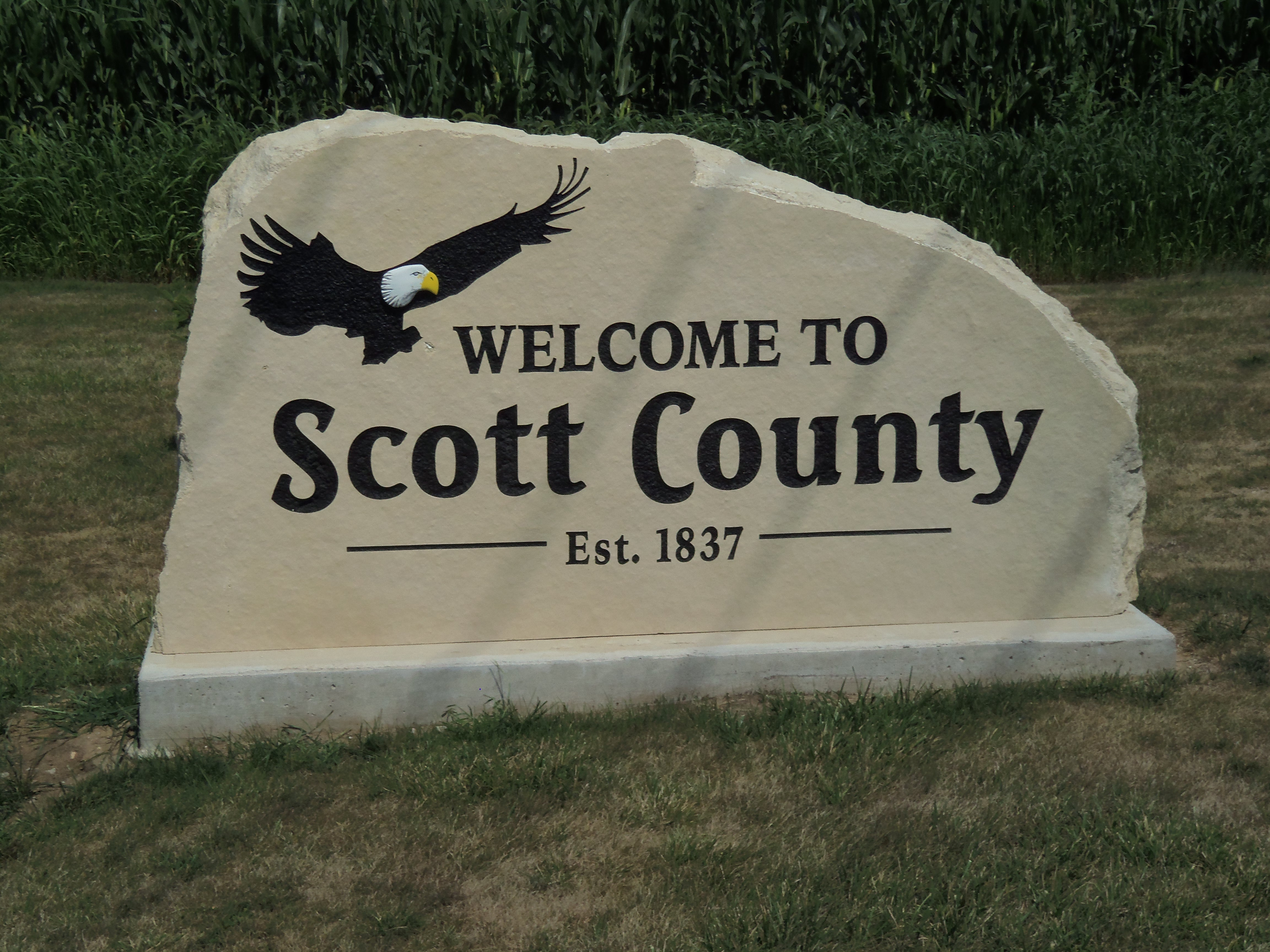 Welcome sign for Scott County, Iowa located near Durant, Iowa